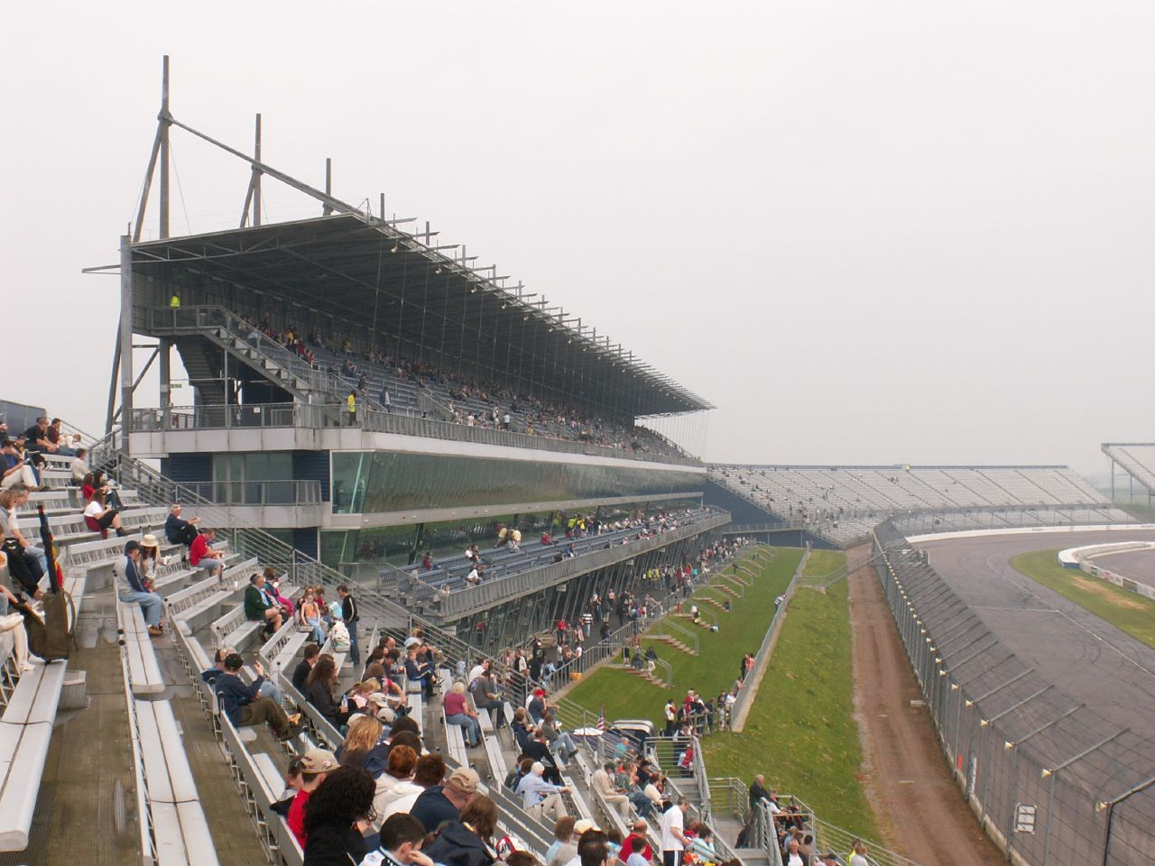 The Rockingham Building at Rockingham Motor Speedway in Northamptonshire